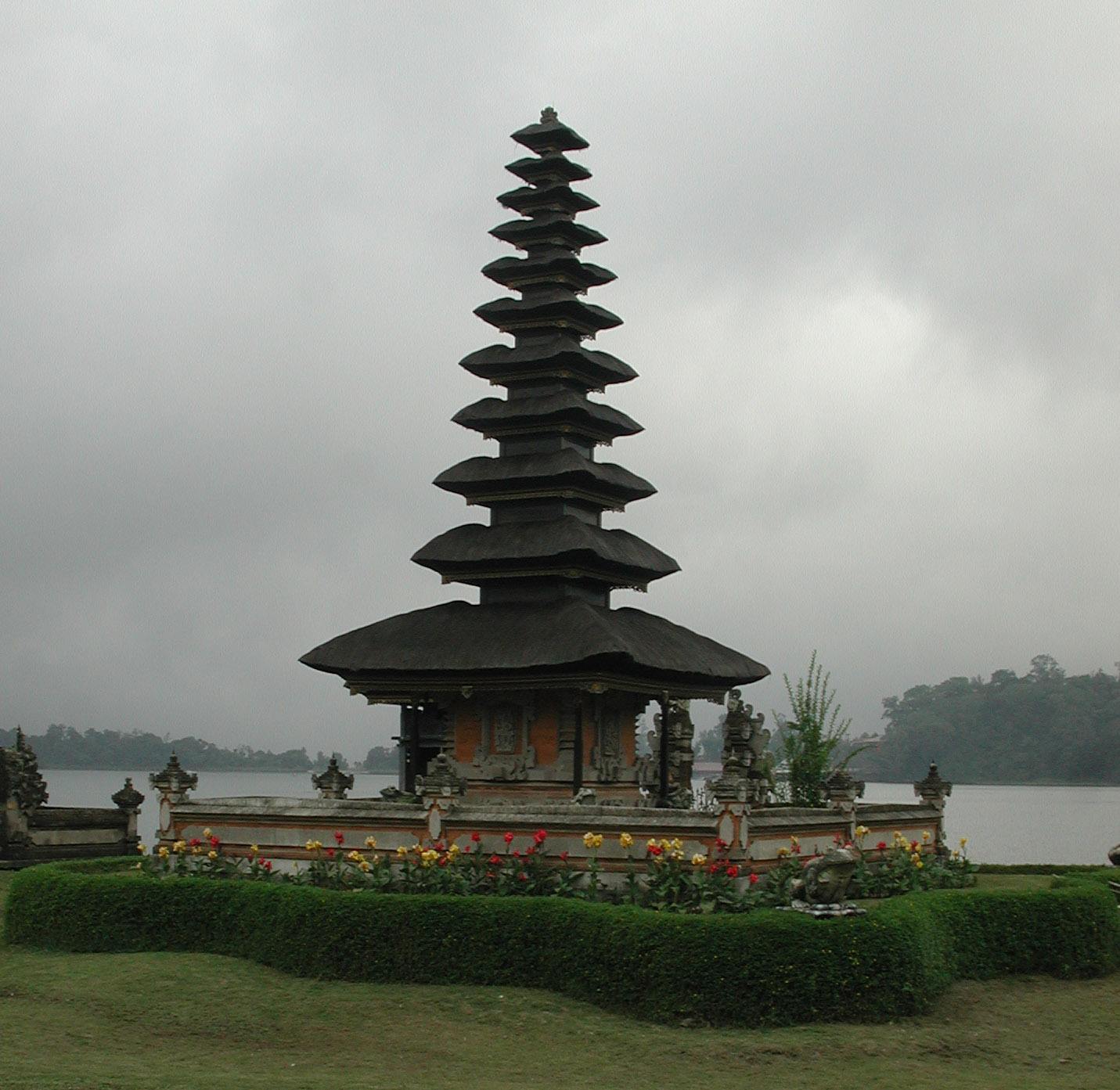 Pura Ulun Danu Bratan, a major Hindu water temple on the shore of Lake Bratan in Bedugul, Bali, Indonesia. This is just one shrine in a much larger temple complex